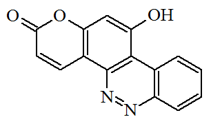 Necatorine structure